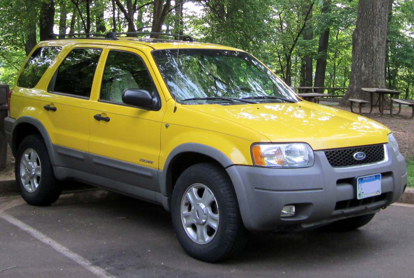 2001-2004 Ford Escape photographed in Washington, D.C., USA.